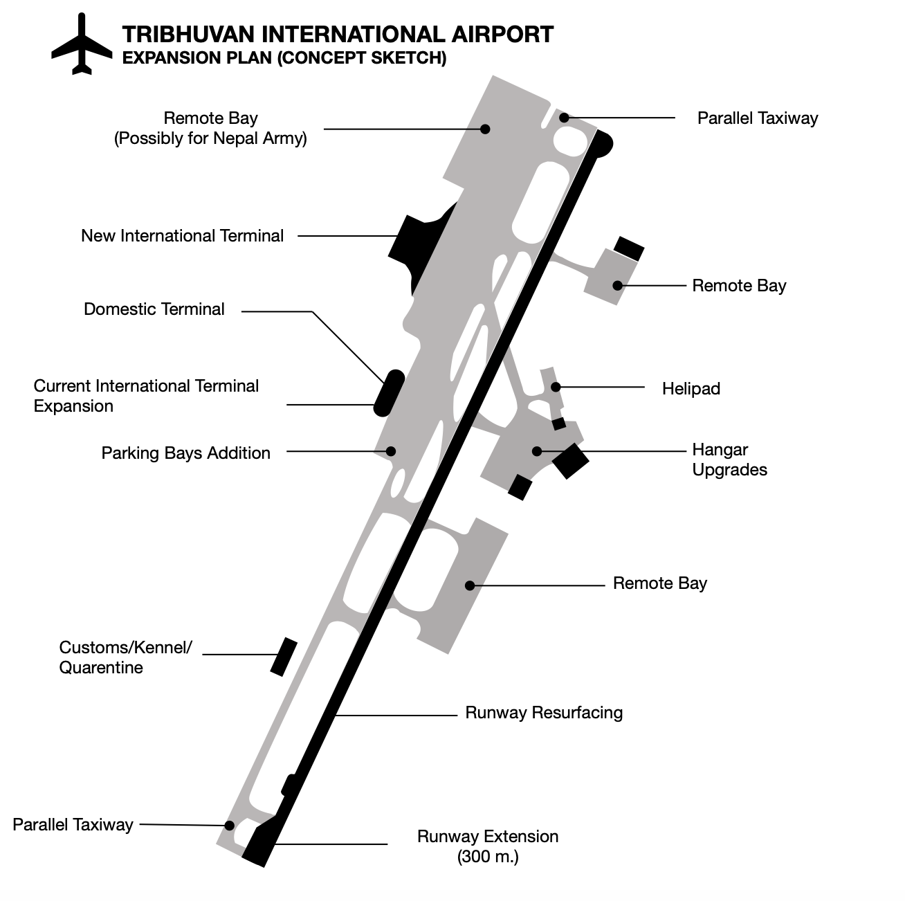 Concept Sketch of the Tribhuvan International Airport (Kathmandu) after the expansion